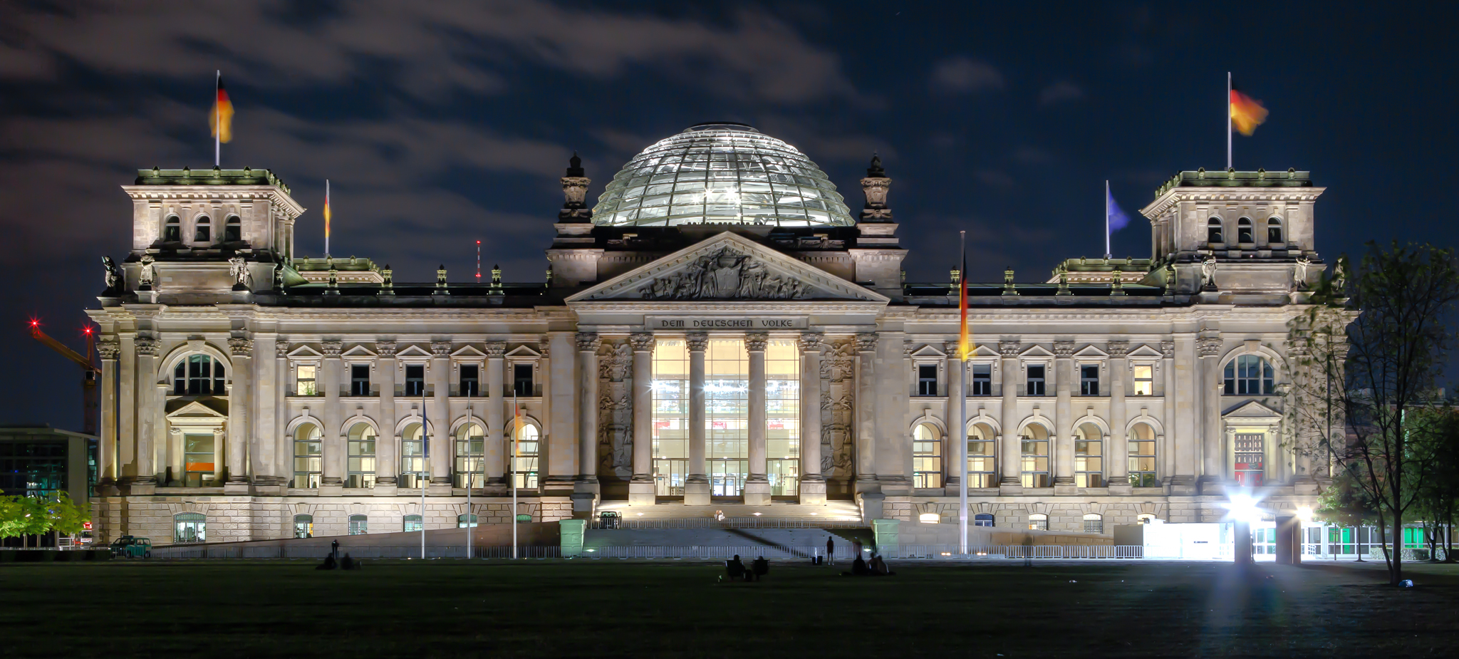 Berlin - Reichstag building at night - 2013This is a photograph of an architectural monument.